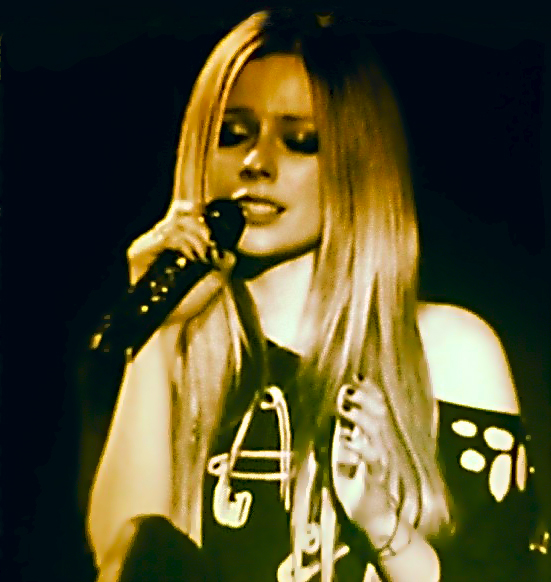 Avril Lavigne singing with eyes closed in Hammersmith, London, England, during her Black Star Tour on September 22, 2011.